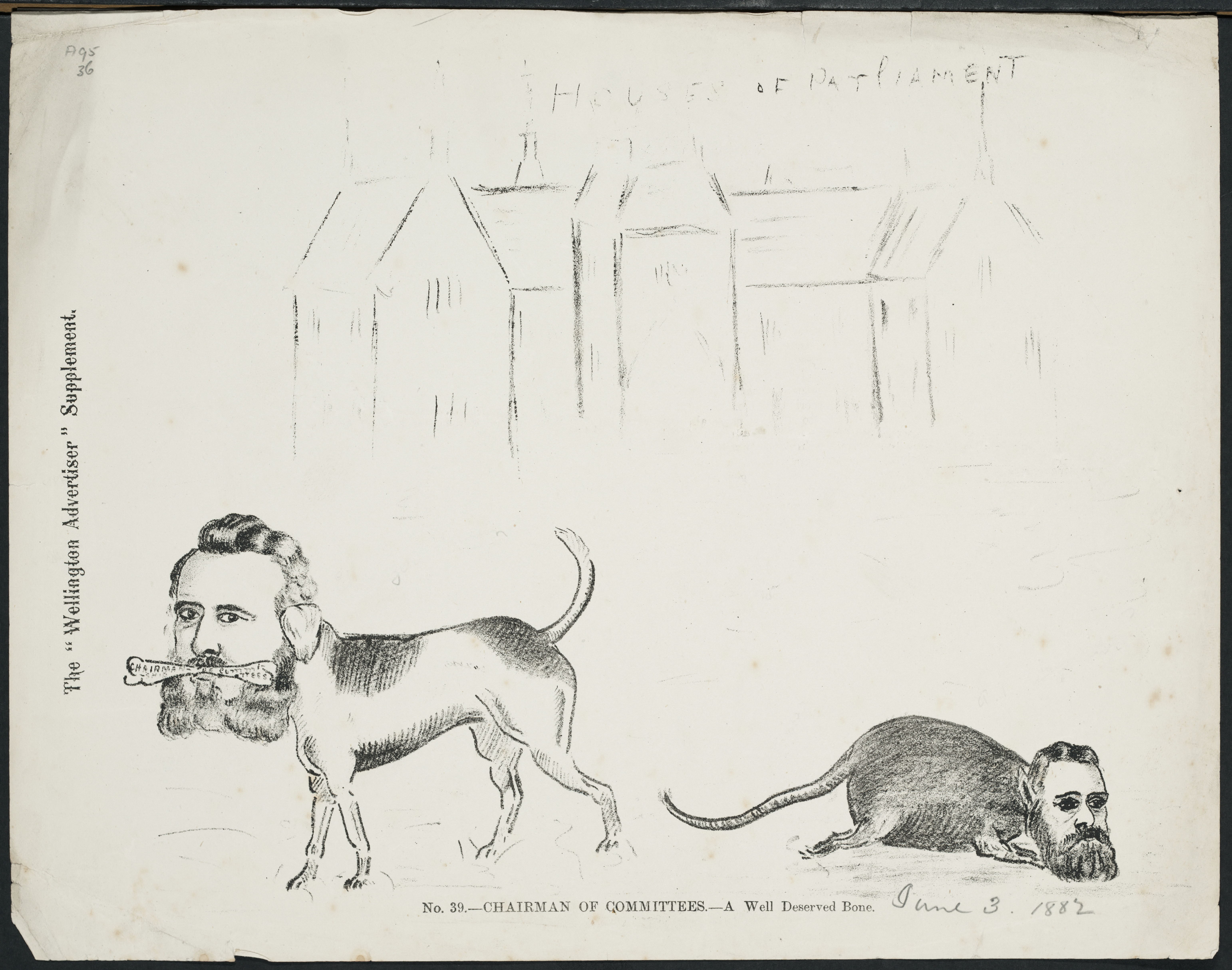 Caricature showing Ebenezer Hamlin, on the left, as a dog with a bone marked 'Chairman of Committees', while a rat with a man's face, probably Arthur Seymour, Member for Wairau, previous Chairman of Committees, and defeated in November 1881, slinks away. The Houses of Parliament are faintly sketched in, in the background.